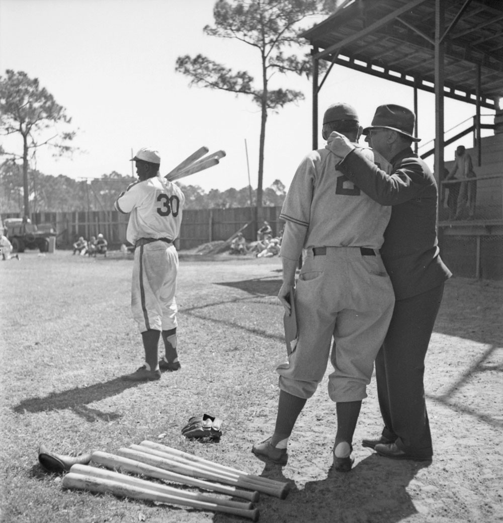 Title Baseball - Jackie Robinson. Photograph possibly published in the Montreal newspaper The Standard circa 1946. [1] Arrangement structure Show Arrangement Structure Show Arrangement Structure Item (linked) part of Weekend Magazine collection [graphic material] (R11305-0-5-E) Place of creation No place, unknown, or undetermined Language of material English Conditions of access Graphic (photo) 90: Open Nil Graphic (photo) Copy negative PA-211368 90: Open Item no. (creator) 1672[1] Graphic (photo) 90: Open Box RV5 061 90: Open Other accession no. 1979-249 NPC Terms of use Credit: Ronny Jaques / Library and Archives Canada / PA- Restrictions on use: Nil Copyright: Copyright assigned to Library and Archives Canada by copyright owner Weekend Magazine. Additional name(s) Photographer: Jaques, Ronny. Source Private Other system control no. DAPDCAP558362 MIKAN no. 3593629